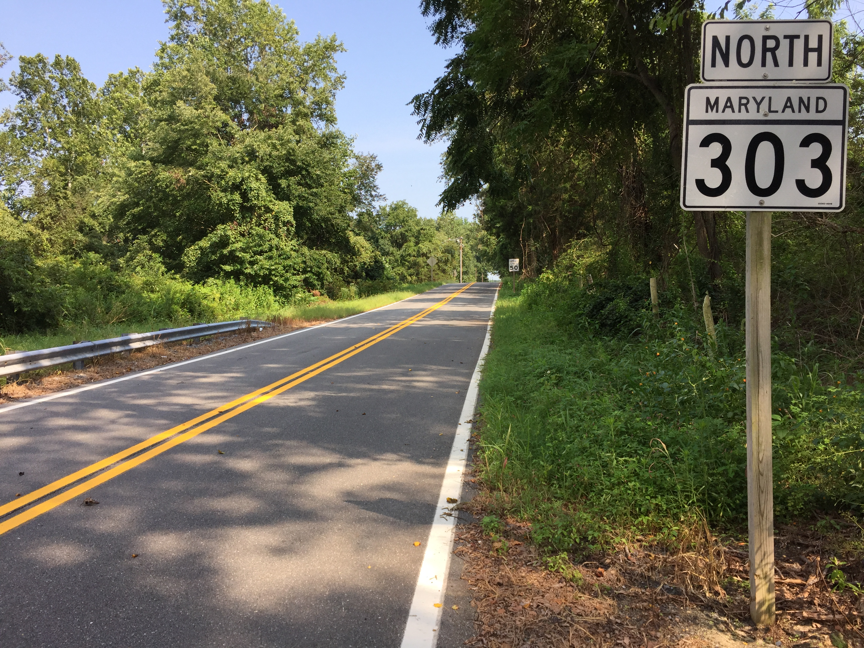 View north along Maryland State Route 303 (Tappers Corner Road) at Maryland State Route 309 (Cordova Road) in Cordova, Talbot County, Maryland